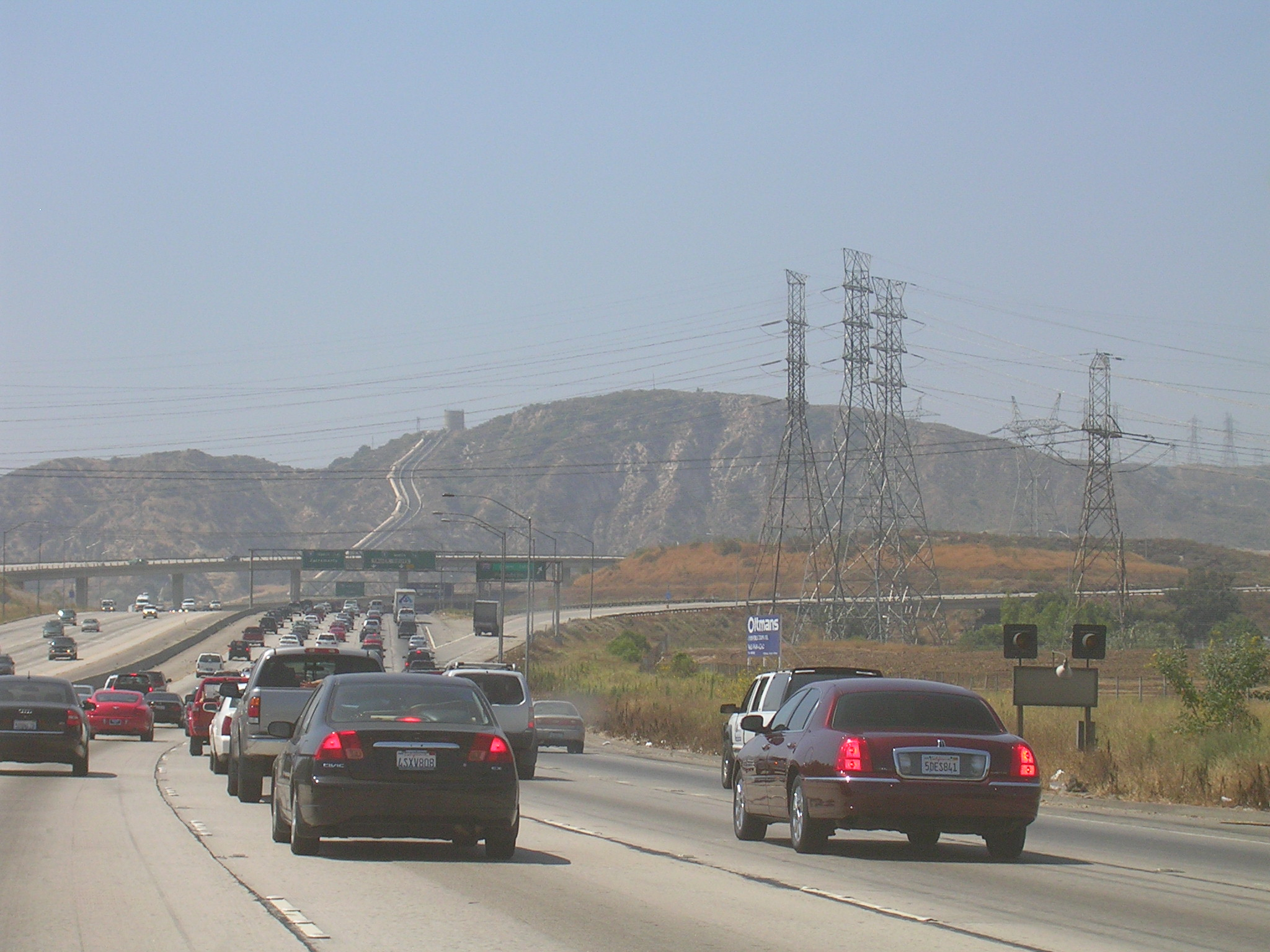 Several 230 kV dual-circuit power lines and a high voltage direct current +/- 500 kV line, the Pacific DC Intertie cross I-5 in Sylmar, Los Angeles. Two more 500 kV power lines are seen in the background. The 230 kV lines are managed by Los Angeles Department of Water and Power (LADWP). The 500 kV lines are managed by SCE (LADWP's own 500 kV lines enter its system at Receiving Station E "Toluca" and Receiving Station B "Century"). On Northbound Interstate 5 in Sylmar - San Fernando Valley, Los Angeles, California